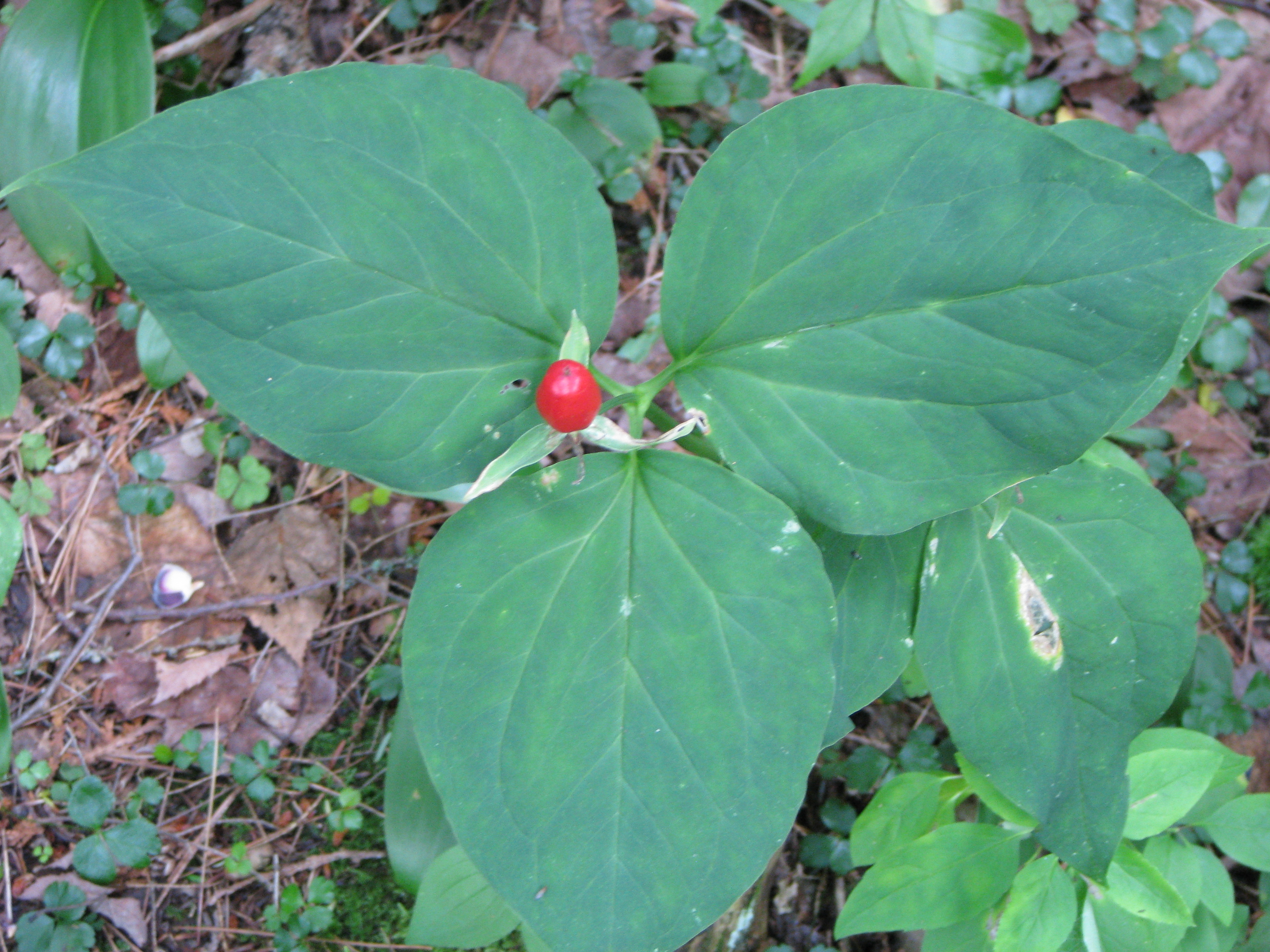 Fruit of the painted trillium, Black Pond, Keese Mills, NY.